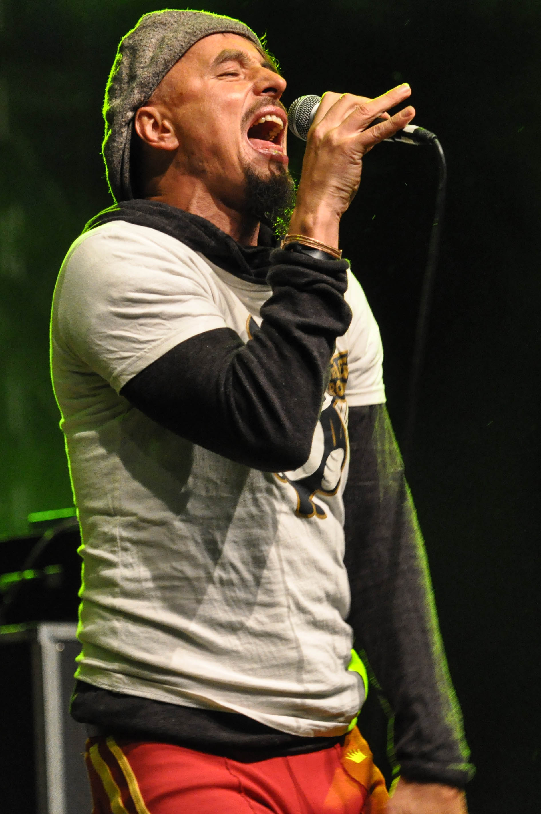 Festivalsommer This photo was created with the support of donations to Wikimedia Deutschland in the context of the CPB project "Festival Summer".